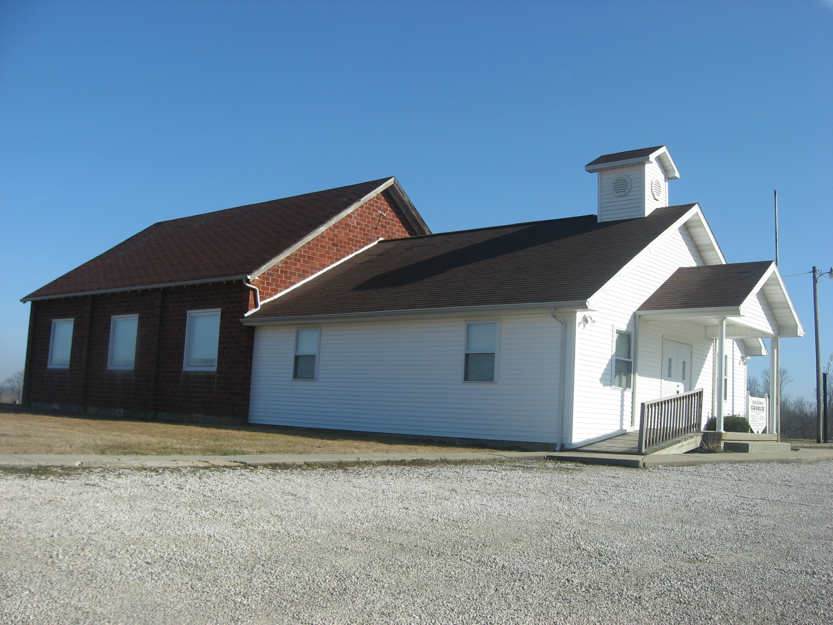 Front and western side of the Oak Grove United Methodist Church, located on County Road 700S at Pennyville in Reeve Township, Daviess County, Indiana, United States. It was built in 1920.